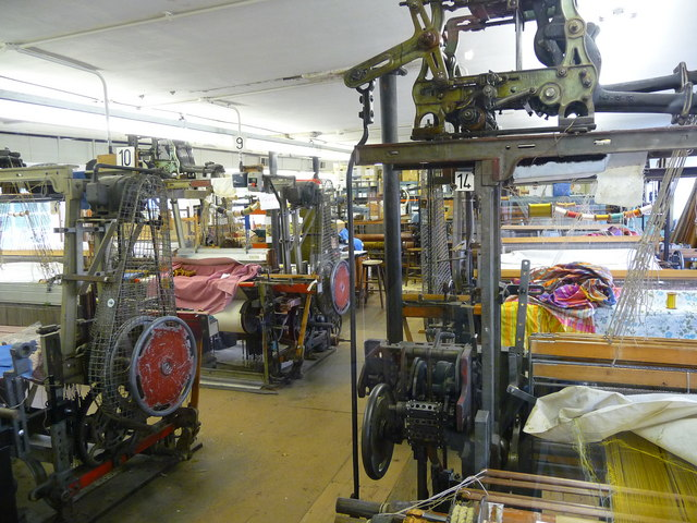 Whitchurch - Silk Mill The weaving room makes small run silk products.